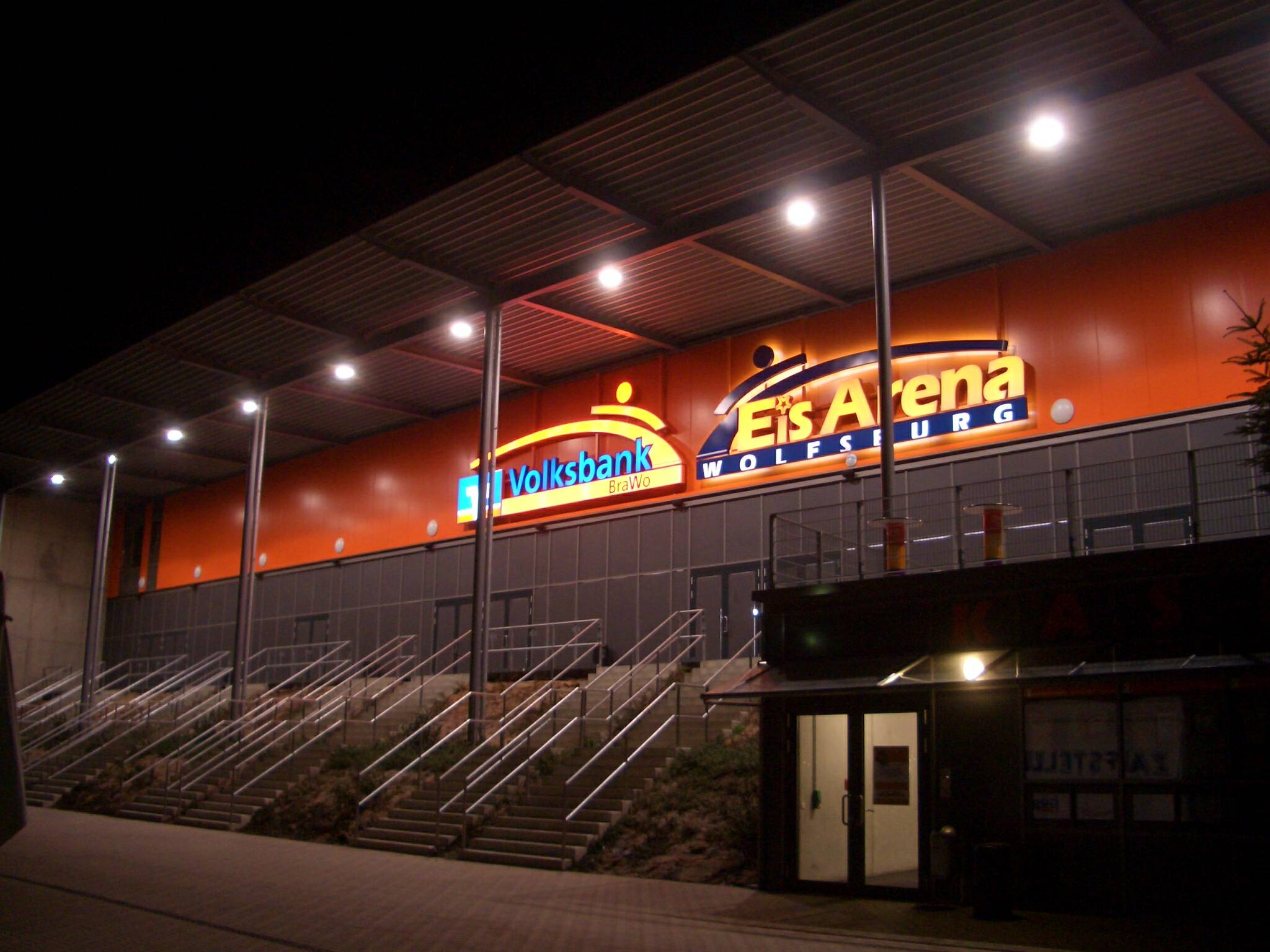 EisArena Wolfsburg. Home of the Grizzly Adams Wolfsburg.